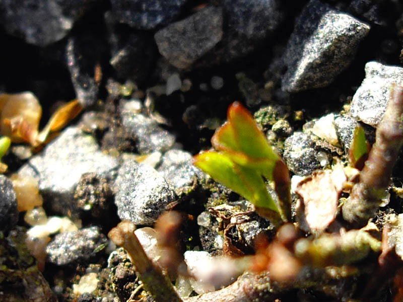 Salix herbacea